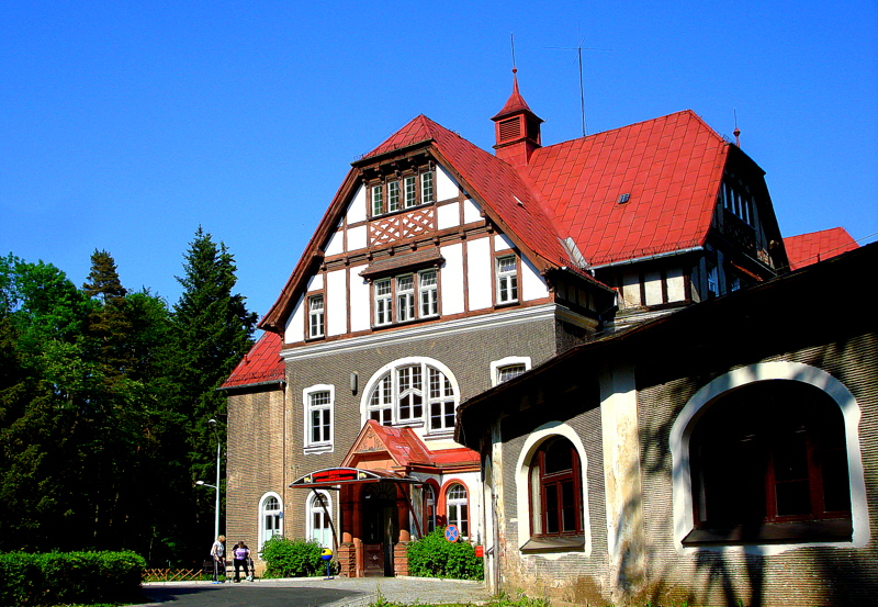 Lower Silesian Rehabilitation Centre